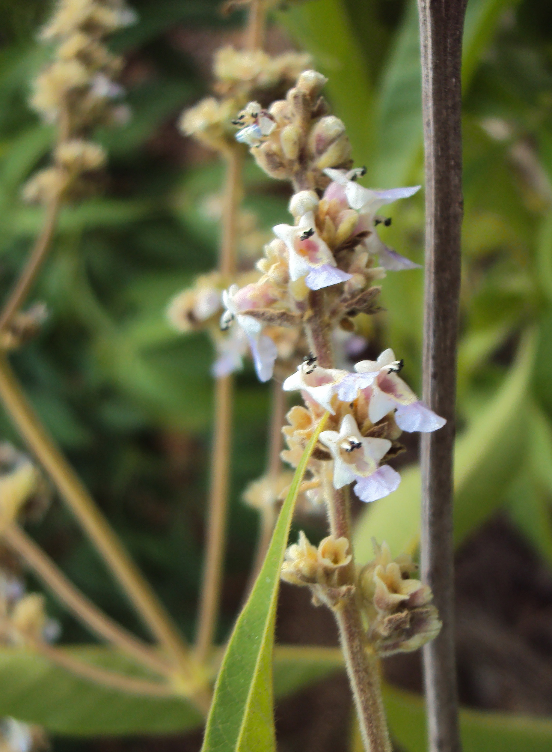 Vitex altissima